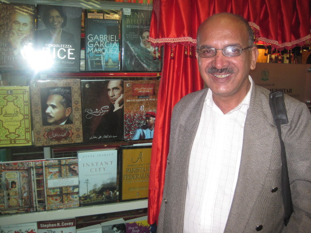 Aqeel Abbas Jafari, 25 Feb, 2012-02